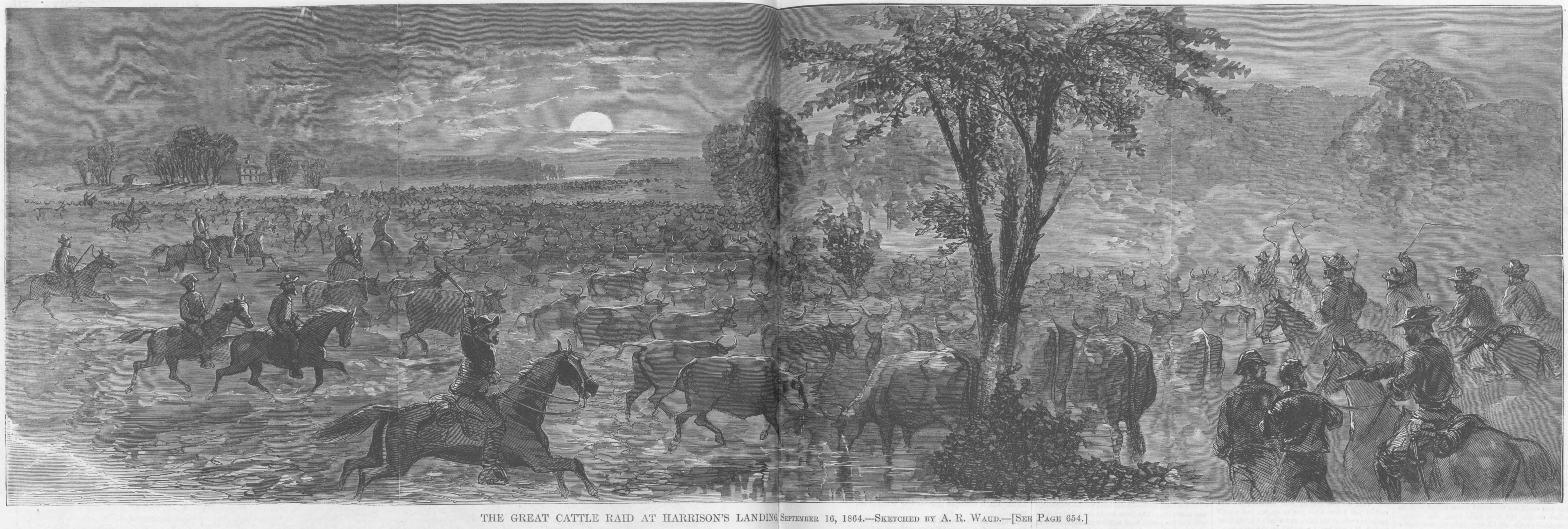 An engraving from the October 8, 1864 edition of Harper's Weekly captioned "THE GREAT CATTLE RAID AT HARRISON'S LANDING, September 16, 1864". Further information about the raid is given on page 654: "THE two sketches on pages 648 and 649 relate to General GRANT'S campaign. The great Cattle Raid made by the rebel cavalry under General HAMPTON on the 16th of September, though not in itself of great importance, was yet, it must be confessed, a very mortifying incident of the campaign. About 2500 beeves were captured. These cattle were intended for the army north of the James especially, and were captured at Harrison's Landing. The attack was very bold, and in such force that our guards could make no efficient resistance. A force was immediately dispatched under GREGG to pursue the saucy "rebs," but did not succeed in overtaking them."